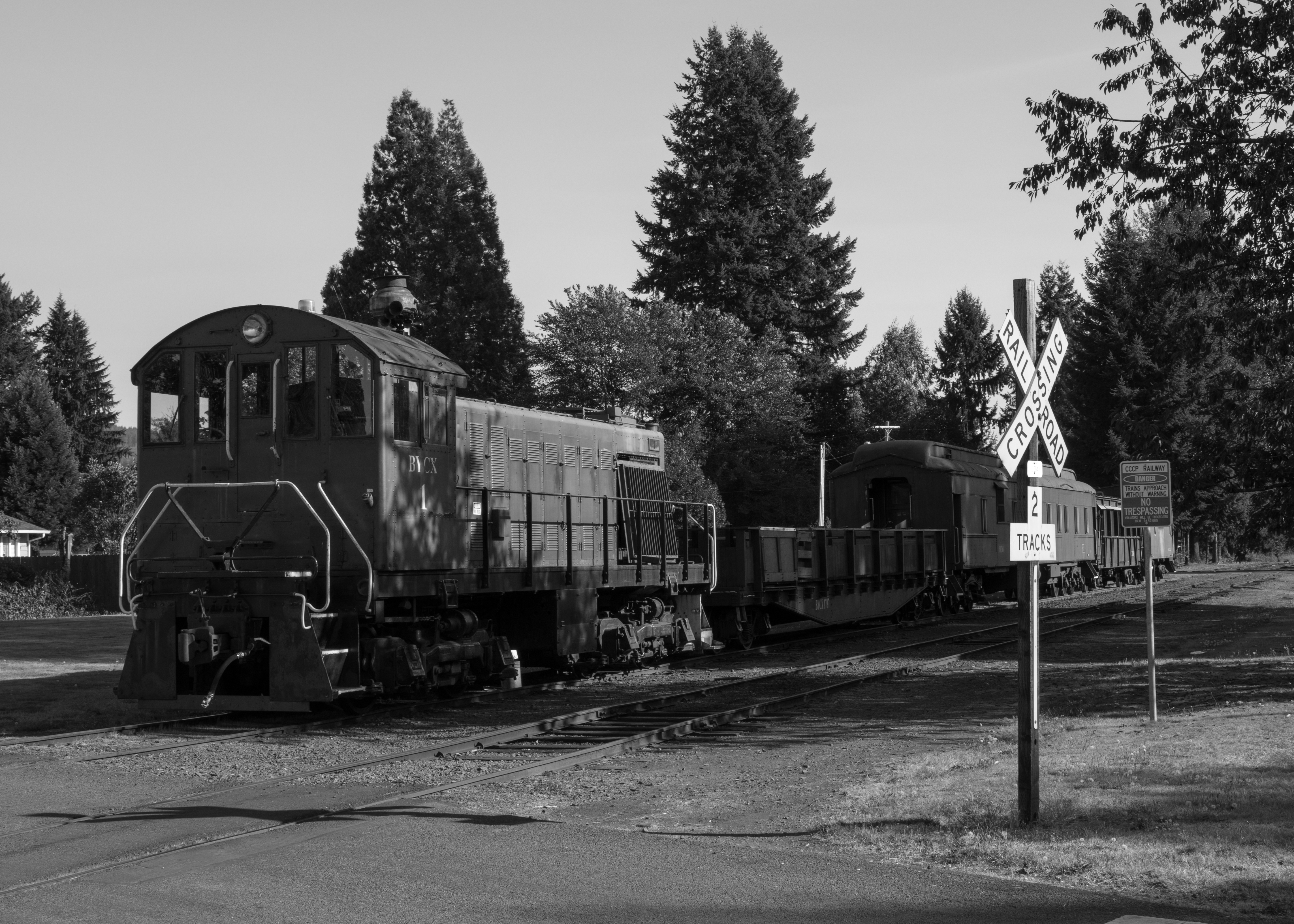 Chelatchie Prairie Railroad passenger train in station at Yacolt, WA. This is the train used for excursion runs.